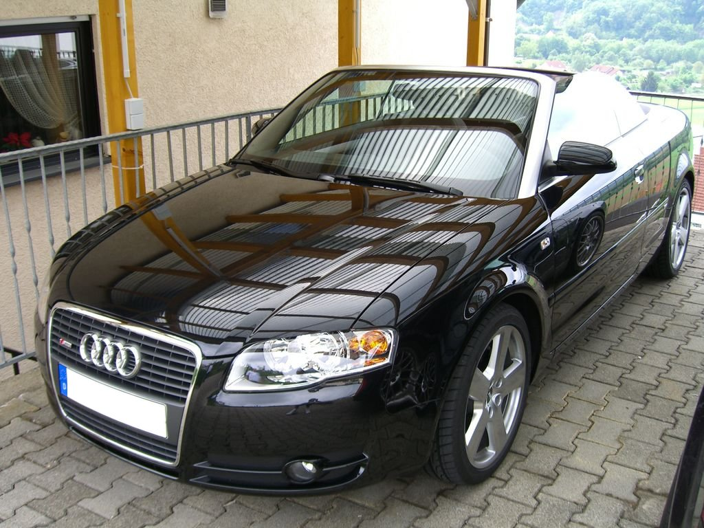 A Audi A4 Cabriolet (Model B7)